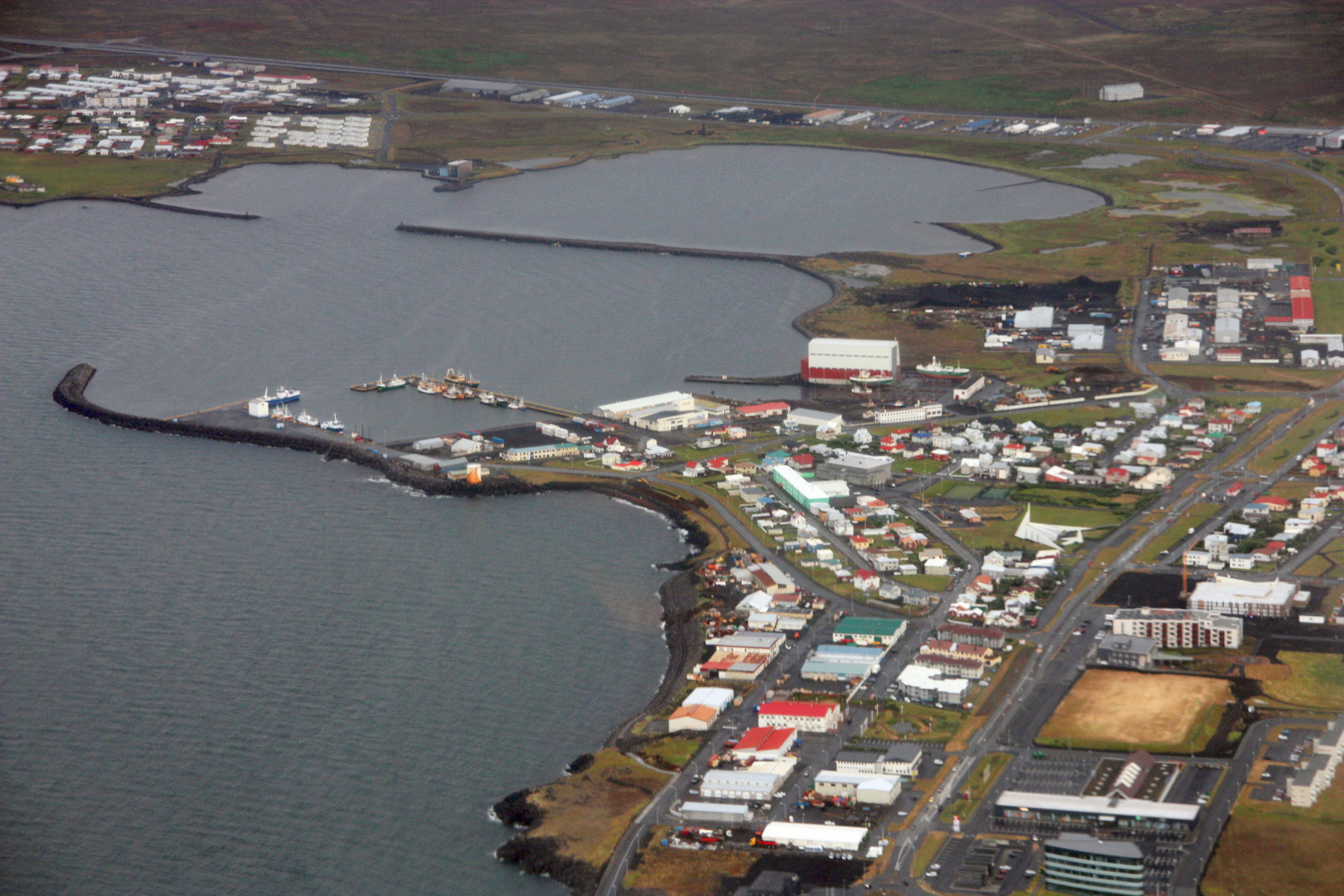 Ytri-Njarðvík (Ytri-Njardvik) in Reykjanesbaer as seen from a plane taking off from Keflavik Airport.